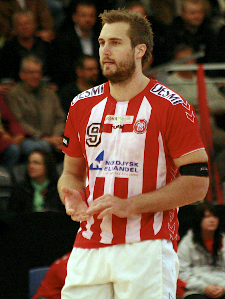 Mattias Gustafsson from AaB Handball.